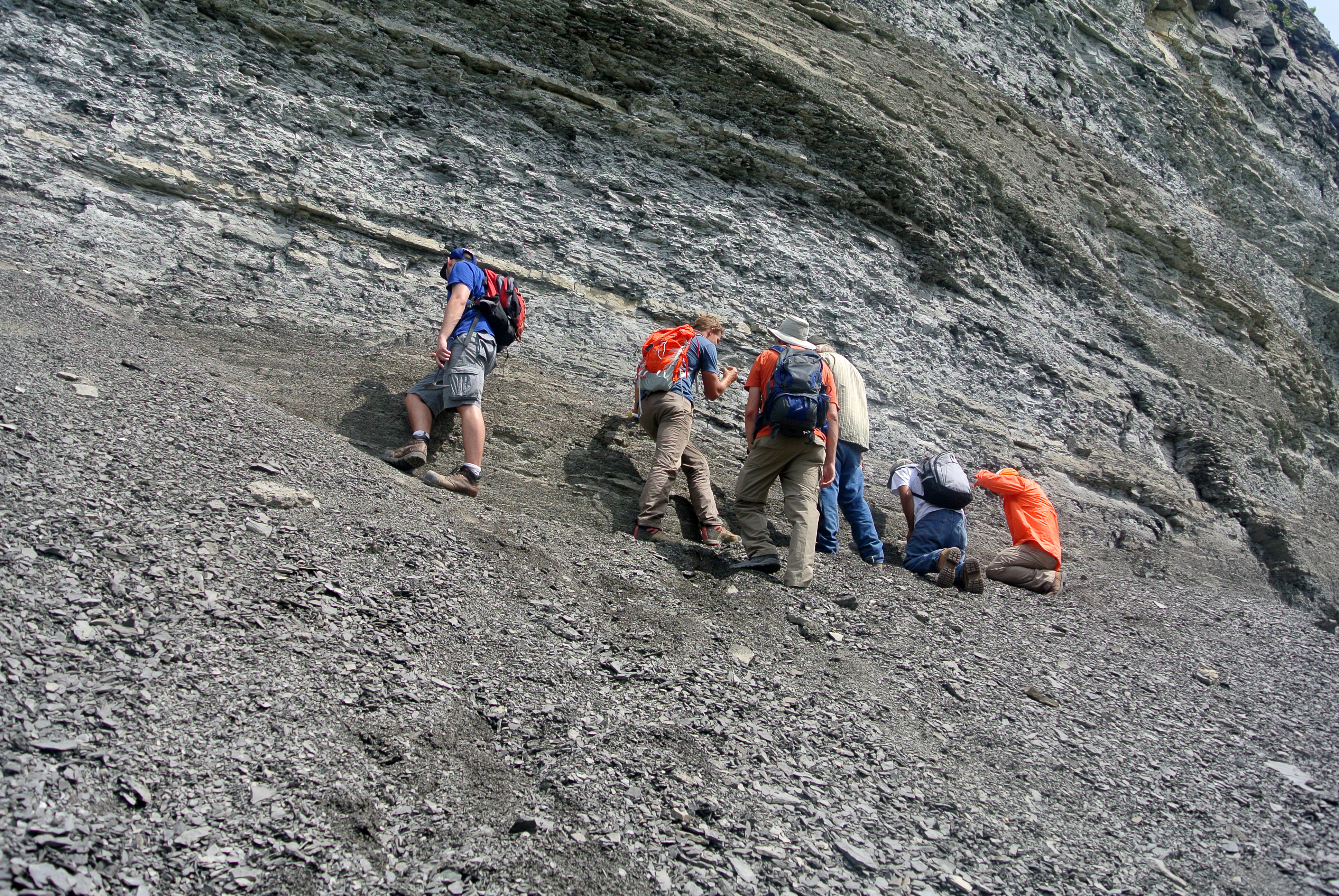 Rochester Shale (Silurian, Wenlockian) exposed in the Niagara Gorge, New York.